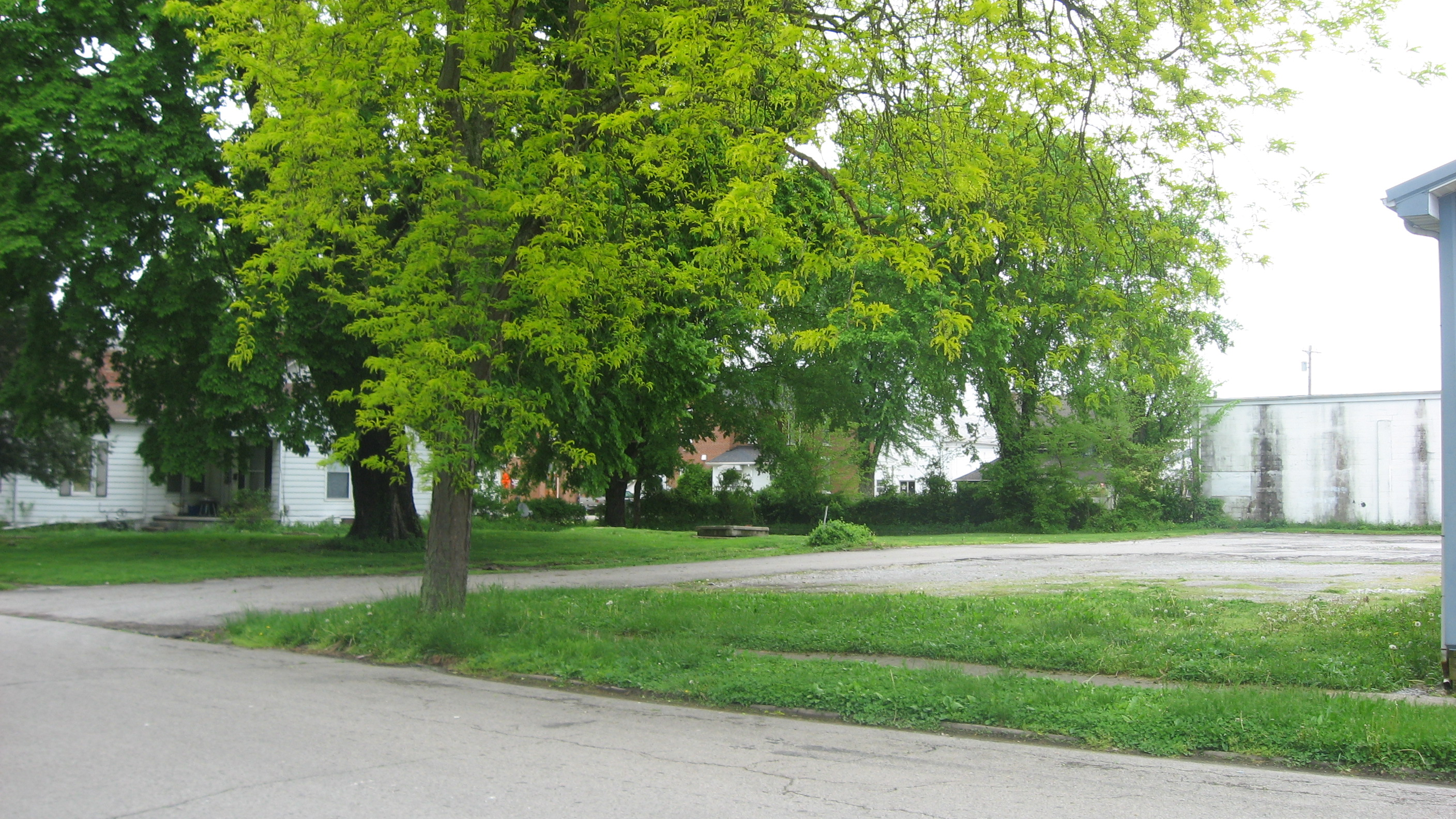 An empty lot on the site of the Sheehan House, which was formerly located at 206 Maple Street in Falmouth, Kentucky, United States. The house was listed on the National Register of Historic Places in 1983 and has not yet been removed.